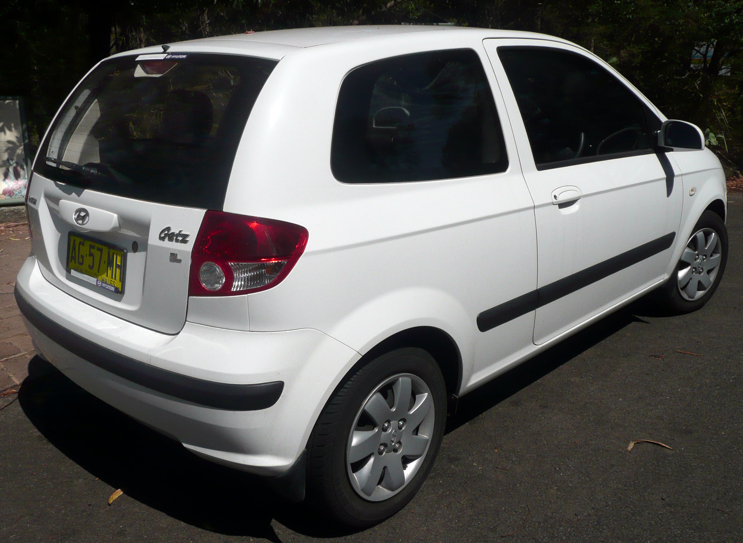 2005 Hyundai Getz (TB MY05) GL 3-door hatchback. Photographed in Audley, New South Wales, Australia.